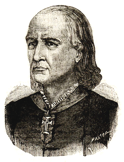 João Sanches de Baena (1581-1643), in a 19th-century imagined portrait.